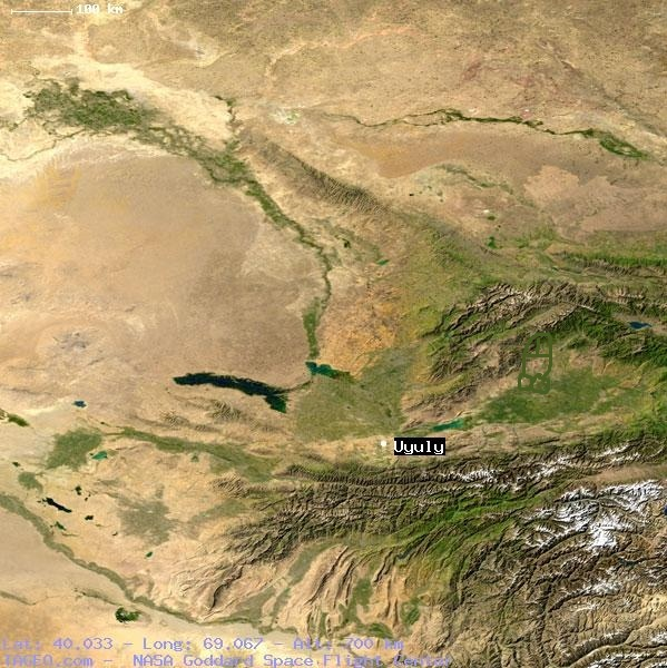 Satellite image